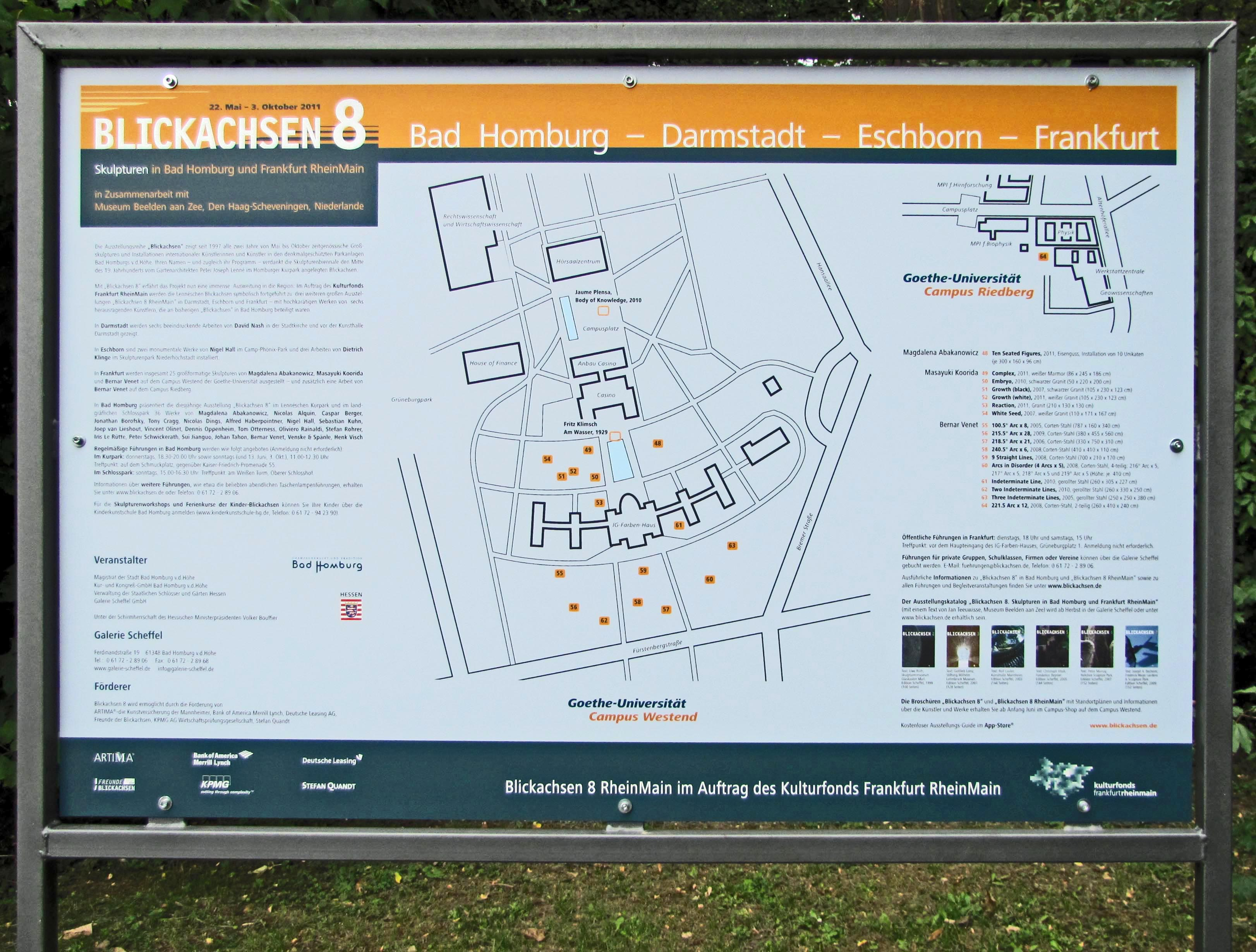 Map of "BLICKACHSEN 8" (sculpture exhibition), 2011, at Campus Westend and Campus Riedberg of Goethe University in Frankfurt am Main, Germany.